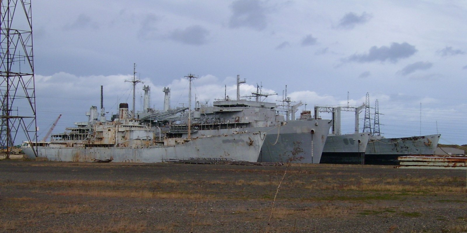 Four ships of the US 'Ghost Fleet' towed to the Graythorp (Hartlepool, UK) yard of Able UK Ltd in Novemebr 2003 and photographed in October 2004. These are the first of 13 ships to be brought across the Atlantic from the US Reserve Fleet moored in the James River, Va., in a contract made with MARAD, to be dismantled at Hartlepool. Due to problems with the licensing of the Graythorp yard, they were still there in March 2007. Visible are (l-r): USS Compass Island (AG-153), USS Canopus (AS-34), USS Canisteo (AO-99), and USS Caloosahatchee (AO-98). More about the contract at "Able UK and the US Ghost Fleet".